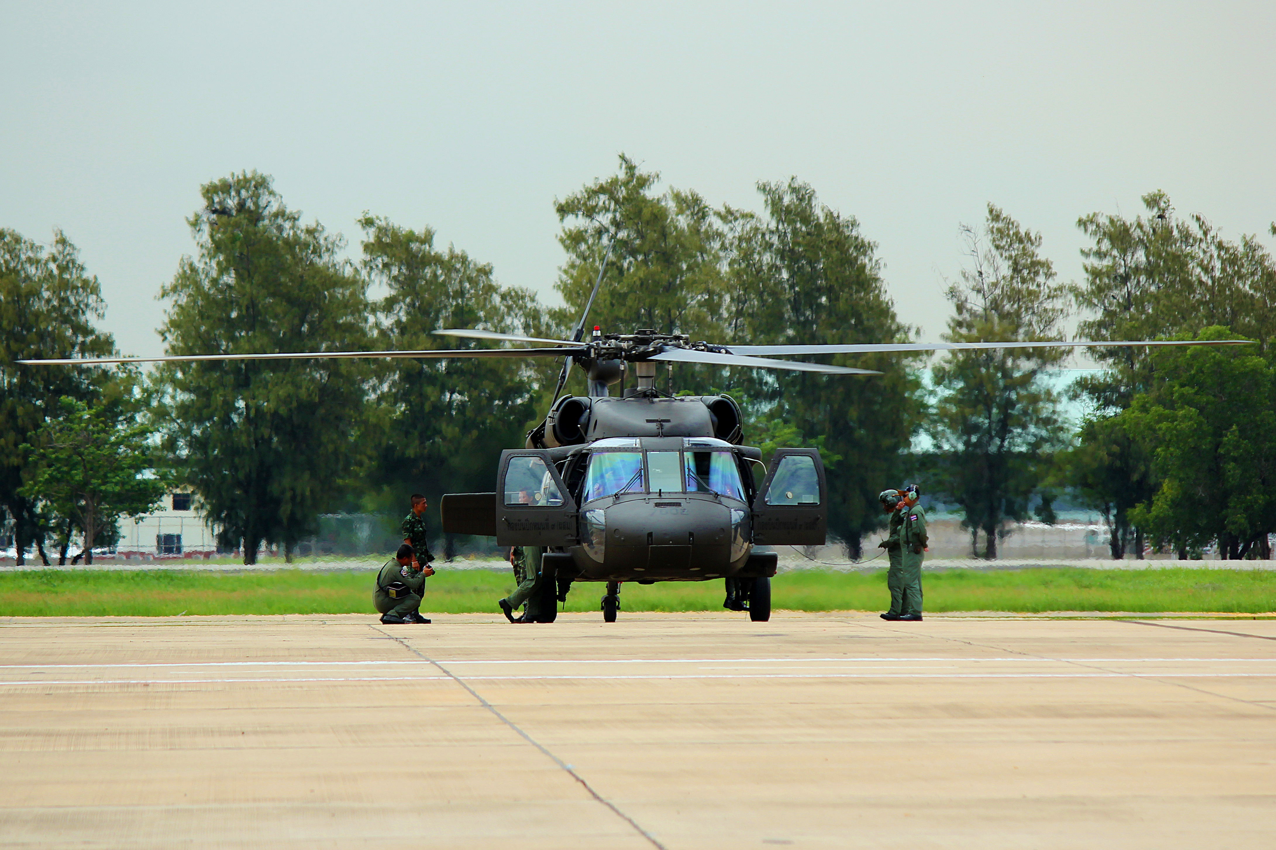 Royal Thai Army : UH-60L Black hawk During air show at Donmaung air force base , Thailand.